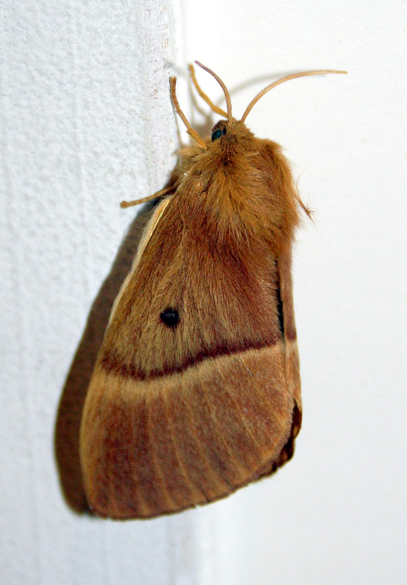 Lasiocampa trifolii butterfly in Gironde, France